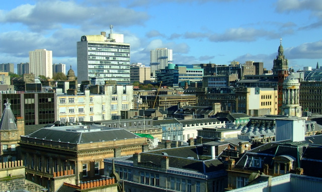 Glasgow rooftops